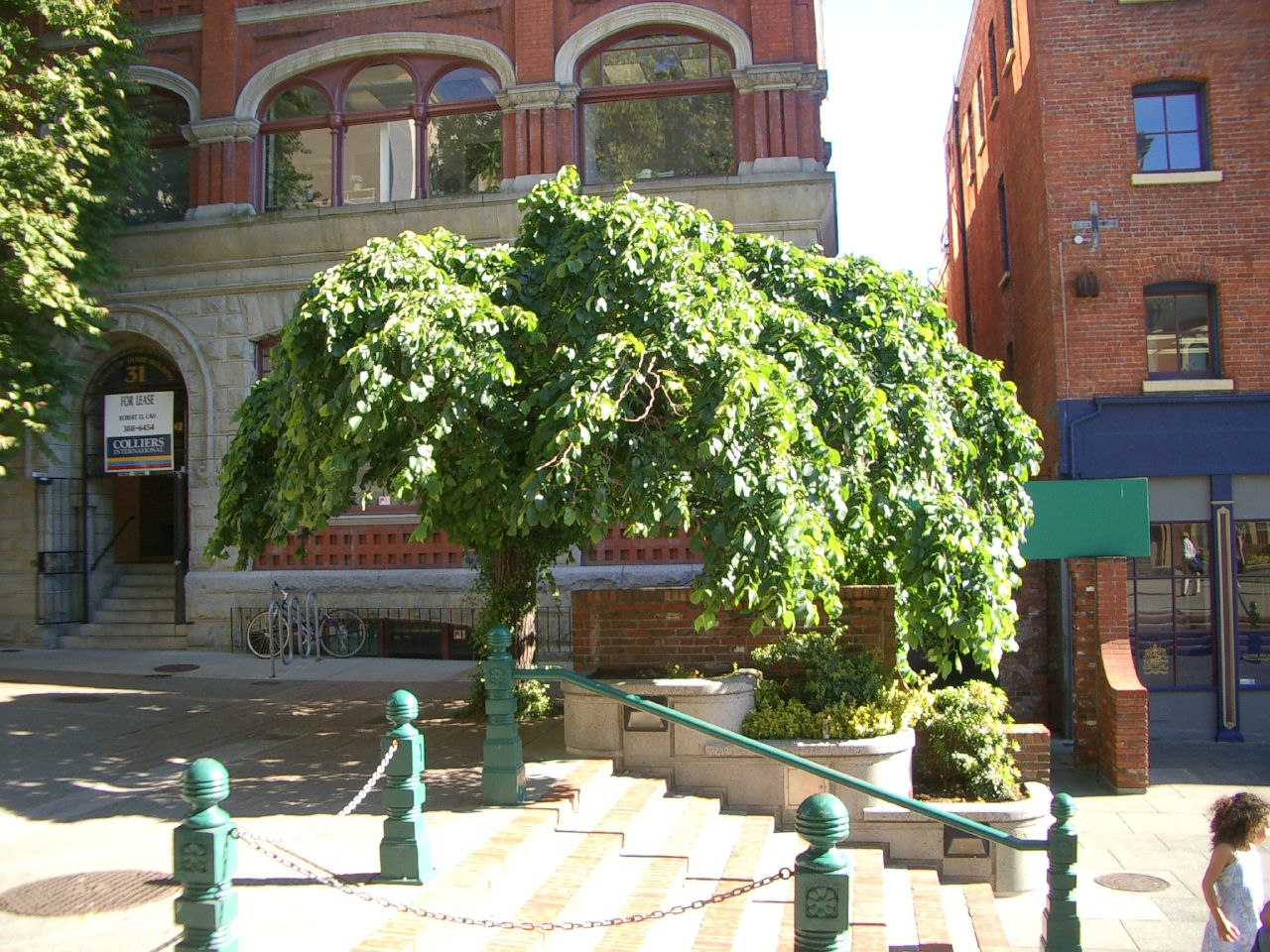 The gnarly tree outside Dawn's former office. More interesting in the winter, without the leaves.